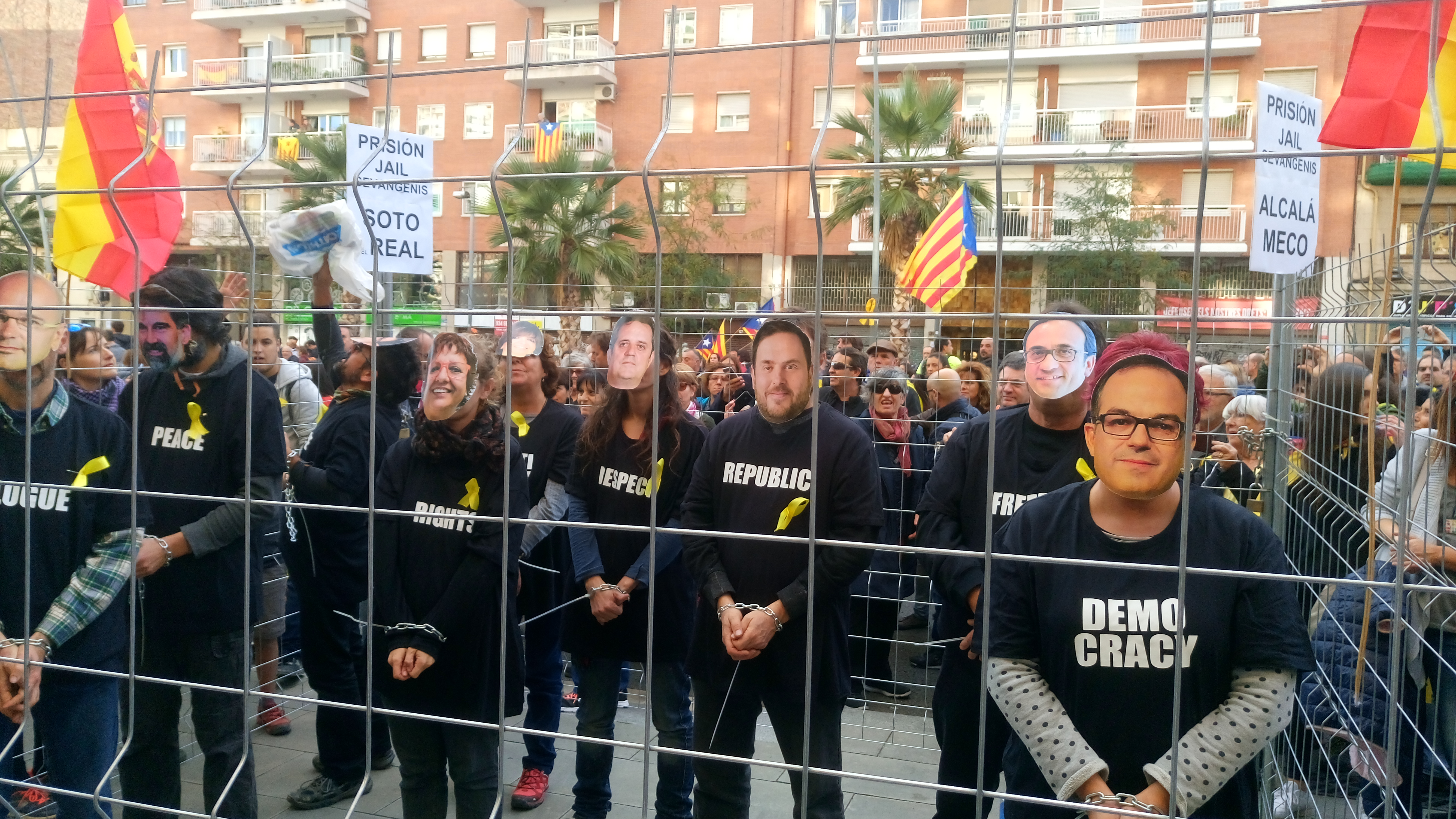 November 11th 2017 Barcelona demonstration "Som República / We are Republic"